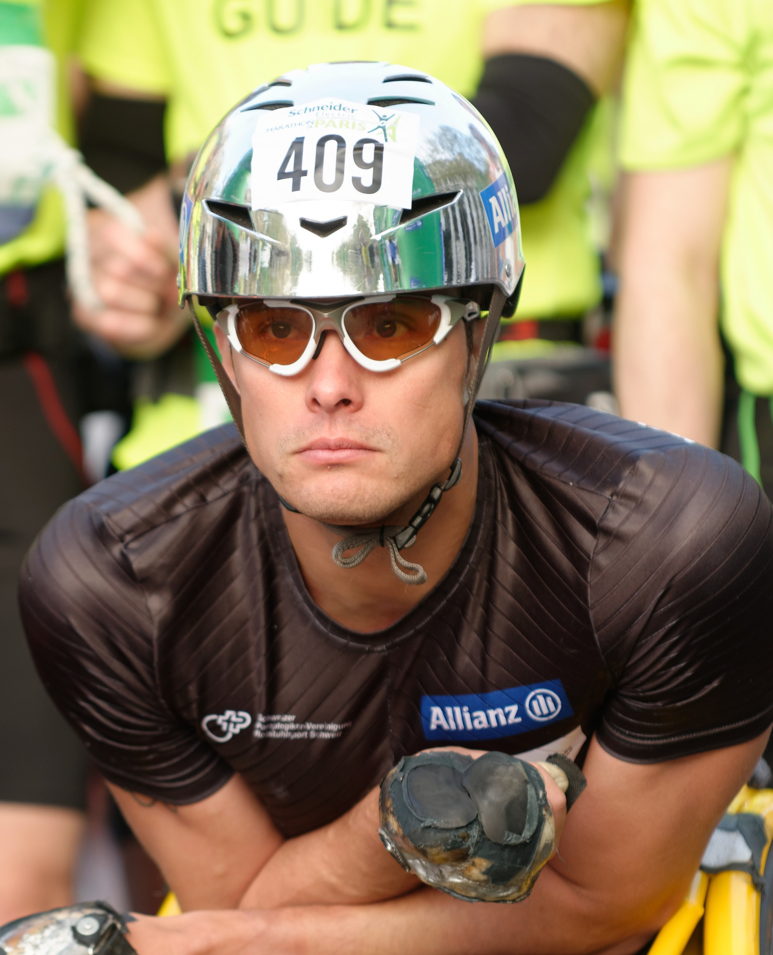 Swiss wheelchair racer Marcel Hug before the start of the 2013 Paris Marathon